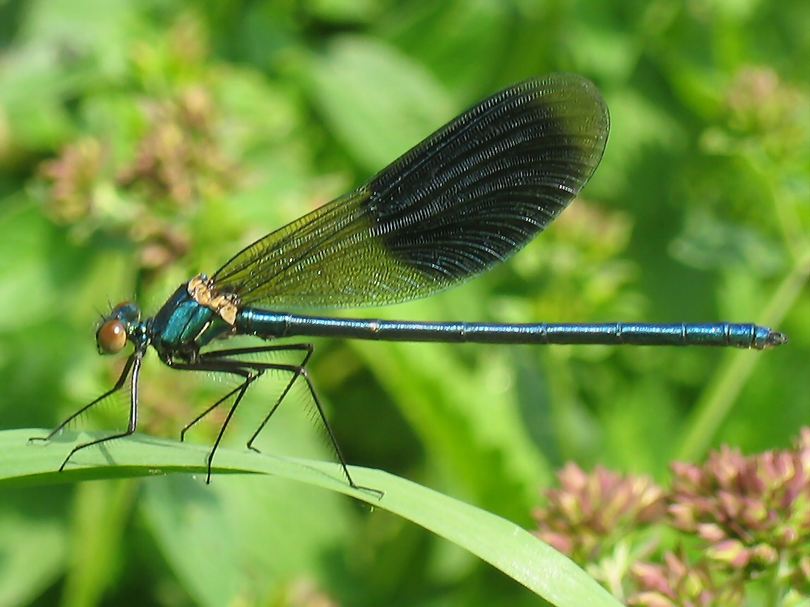 Calopteryx splendens, male. Picture taken near the river Ourthe in Hony, by Tim Bekaert (July 18, 2005)